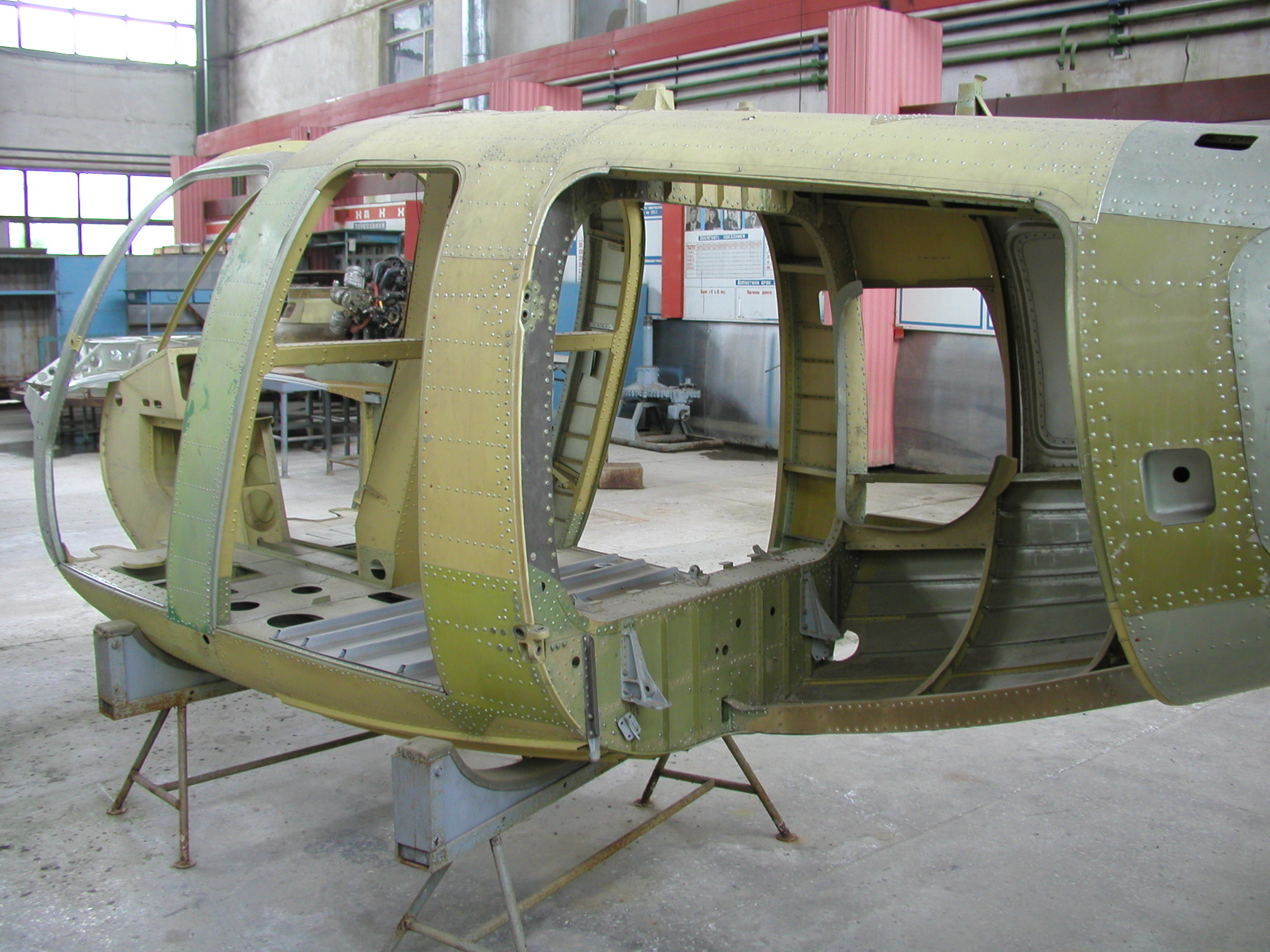 Mil Mi-34 light helicopter (Dubove Helicopter Plant, Transcarpathian region, Ukraine)